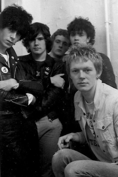 Photo of Crash Course.